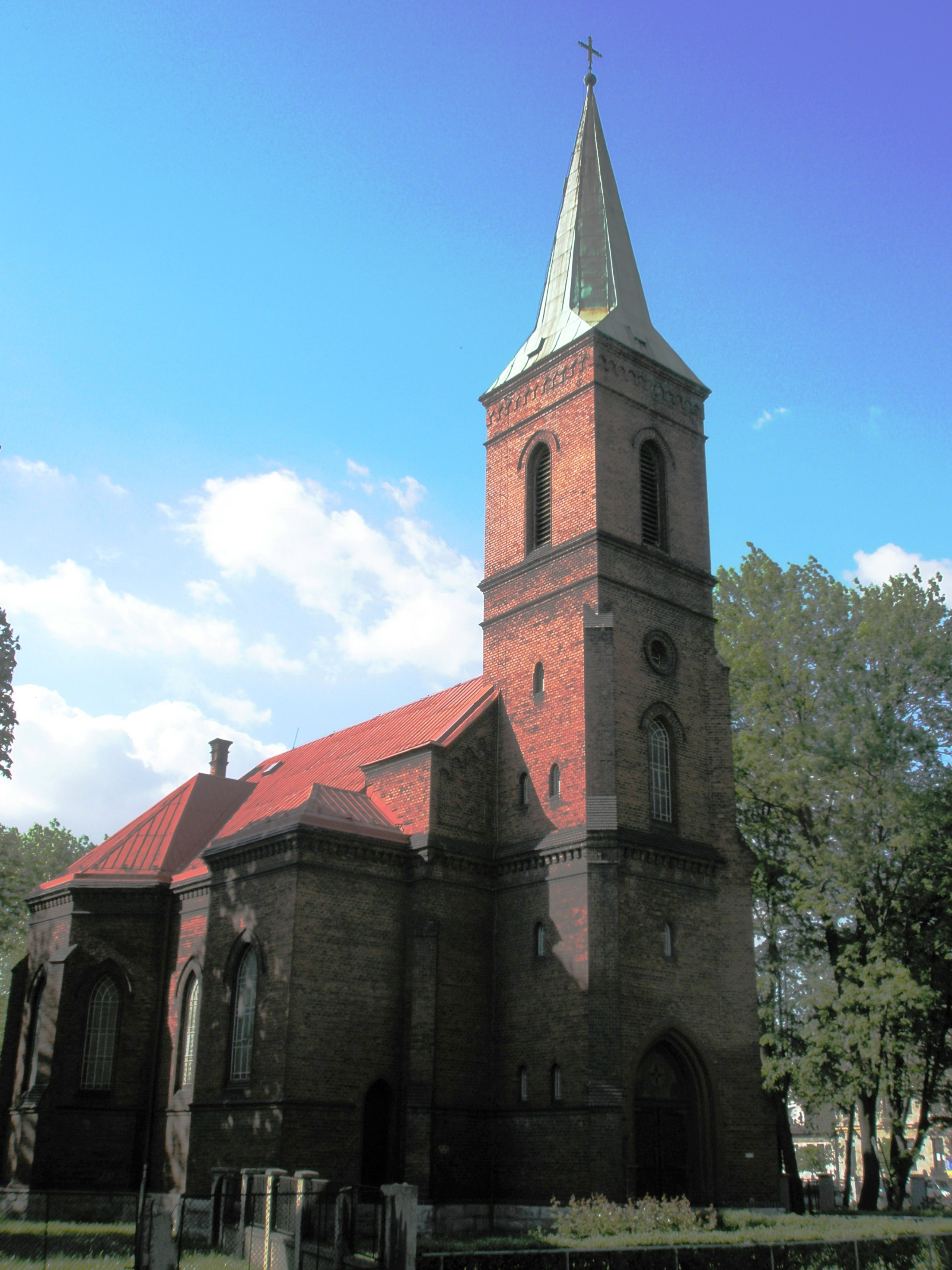 Lutheran Church in Bohumín, Karviná District, Czech Republic